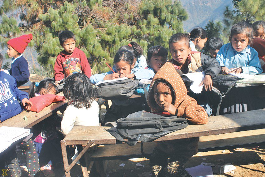 After the earthquake in Baishakh 12 & 29, schools are destroyed in Gorkha which was the epicentre of devasting Earthquake. The Government is not focusing towards this issue.